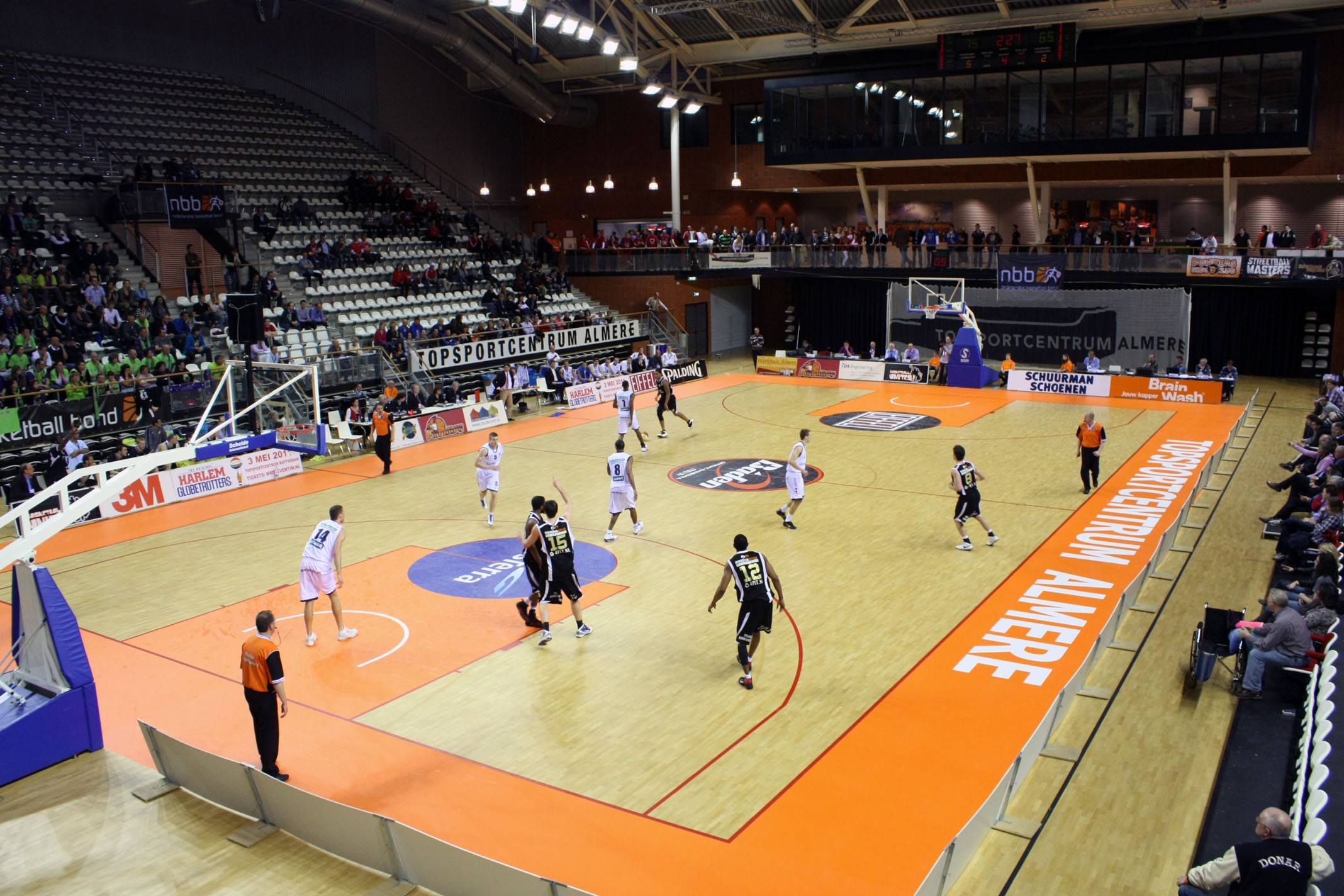 GasTerra Flames and Magixx competing for a spot in the finals of the NBB Cup 2011